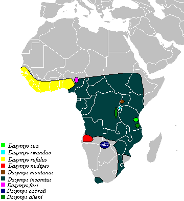 Distribution map of the rodent genus Dasymys based on Verheyen et al. (2003) (see also Image:Dasymys Mullin et al. 2004.png which uses another classification). light green: Dasymys sua light blue: Dasymys rwandae yellow: Dasymys rufulus red: Dasymys nudipes marron: Dasymys montanus very dark green: Dasymys incomtus rosa: Dasymys foxi dark blue: Dasymys cabrali dark green: Dasymys alleni